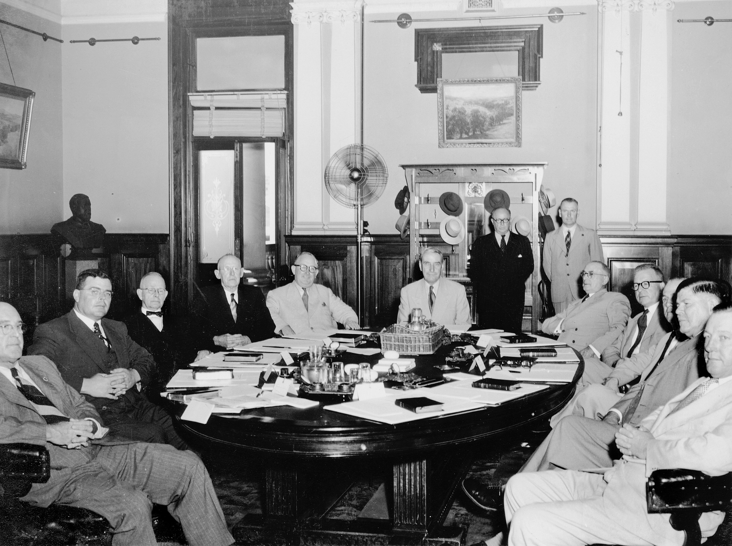 First Gair Ministry swearing in ceremony, Brisbane.